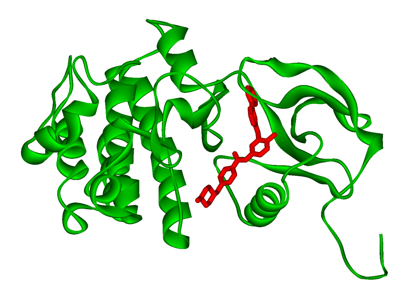 Crystal structure of the c-abl kinase domain (green) in complex with Sti-571 (imatinib, red).Rendered with Accelrys DS Visualizer Pro 1.6 and edited in the GIMP.Conformation and style made to match Image:Bcr abl sti.jpg, originally created by Mxpule for use in Wikipedia.